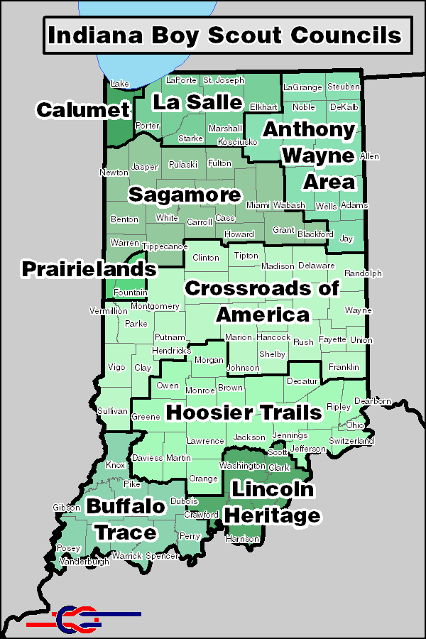 Indiana BSA Councils - Map created using boundary information publicized by the relevant BSA councils. US Census TIGER data used for county and state lines. Council divisions are exact where they coincide with county lines and approximate in other areas. All councils on this map are in the central region.